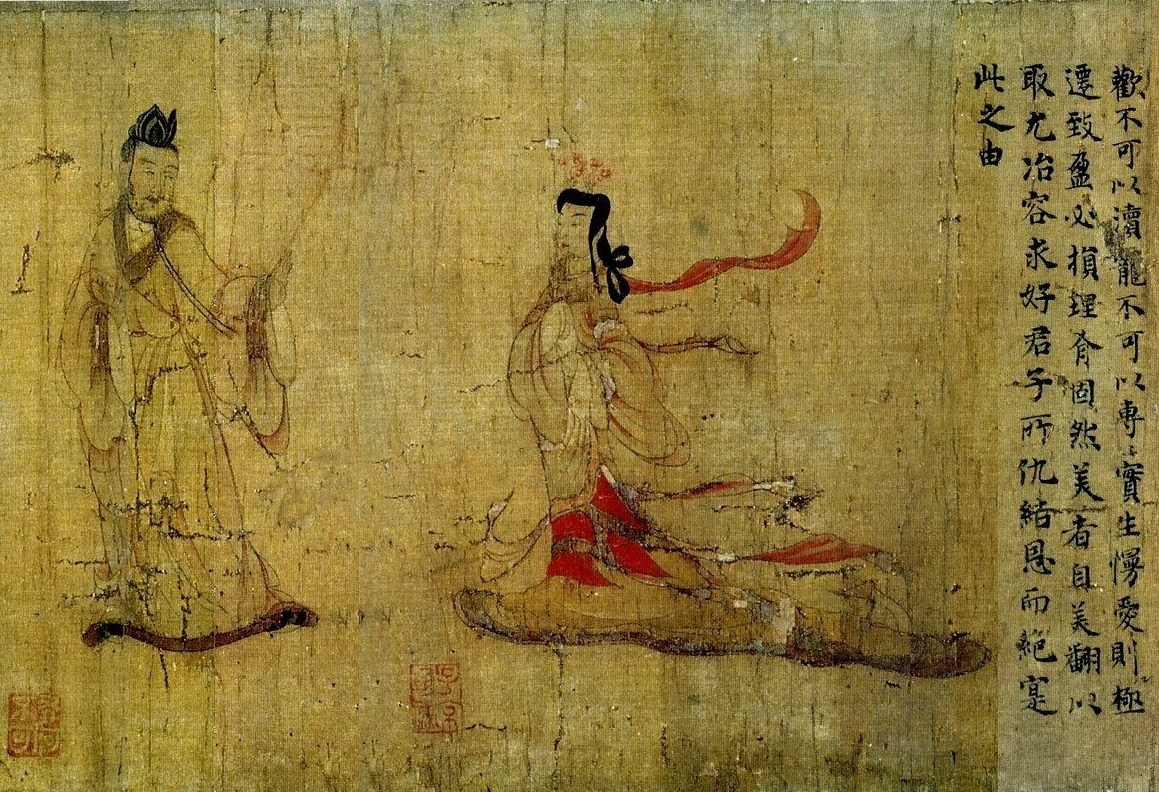 Scene 10 (The rejection scene) of the British Museum copy of the "Admonitions Scroll", attributed to Gu Kaizhi.